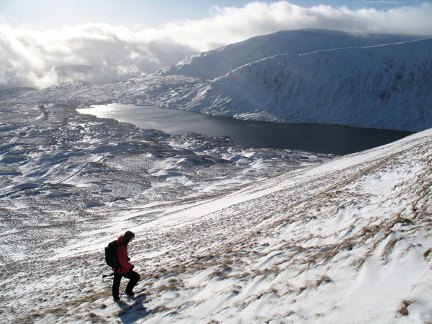 View looking SSW from ascent of Lochcraig Head over Loch Skene to Mid Craig and White Coomb in Winter